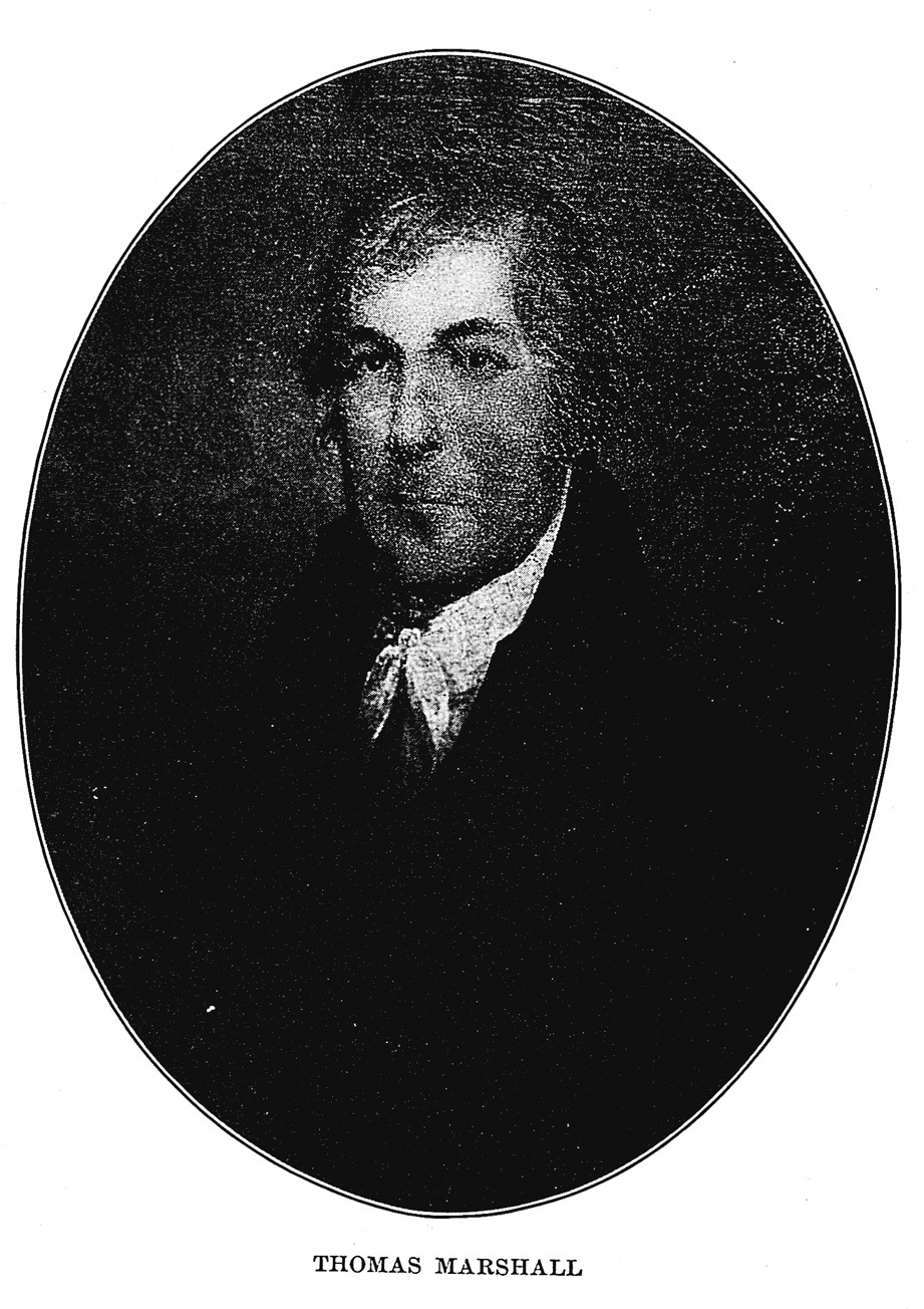 This is the only known portrait of Thomas Marshall, father of Chief Justice John Marshall.